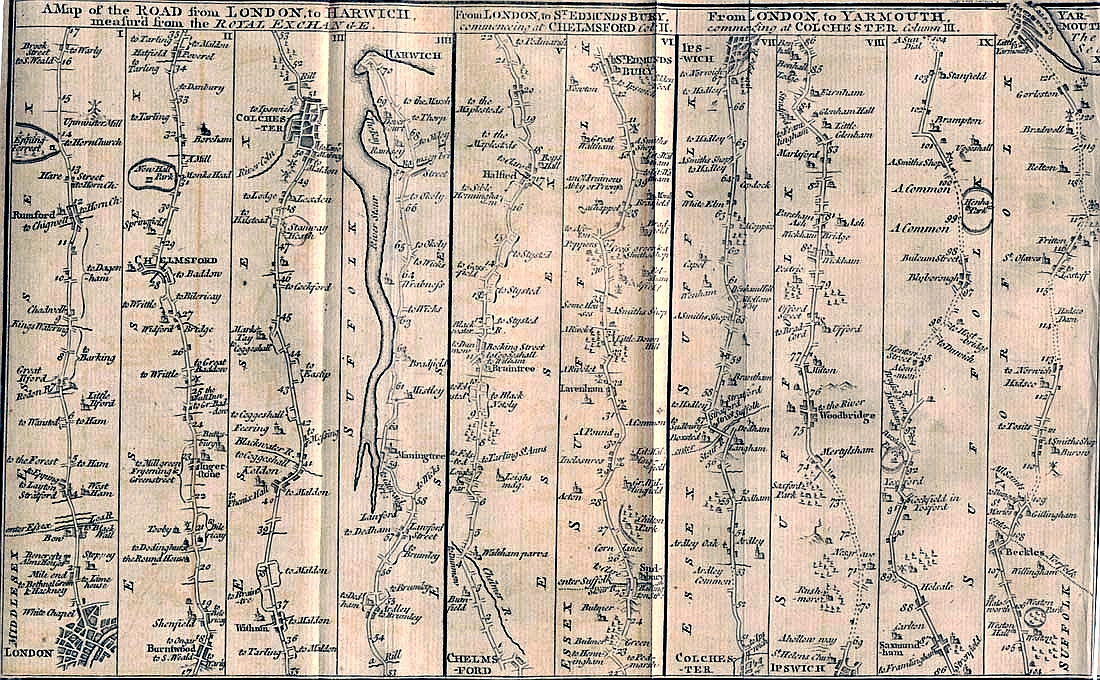 1766 copper plate map by J Gibson for the Gents Magazine. The map is in three sections. Section 1 shows the road from London to Harwich; section 2 the road from Chelmsford to Bury St Edmunds; section 3 the road from Colchester.